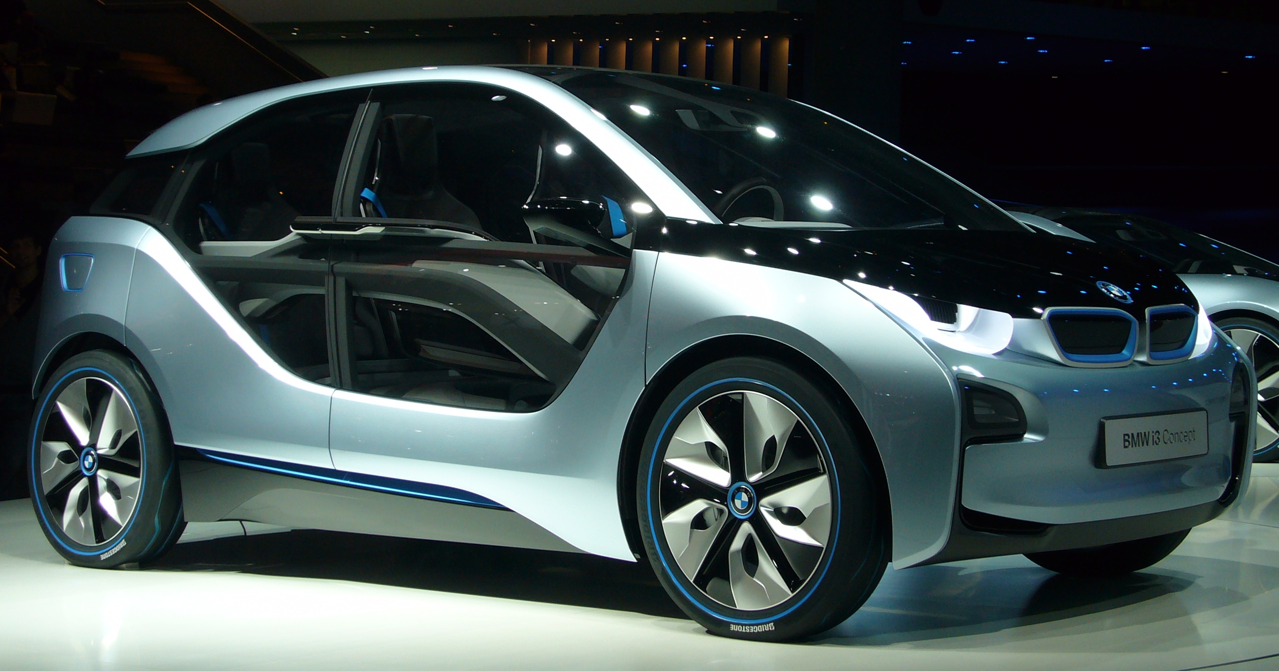 BMW i3 Concept at IAA Frankfurt 2011.